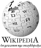 Wikipedia Waray-Waray logo